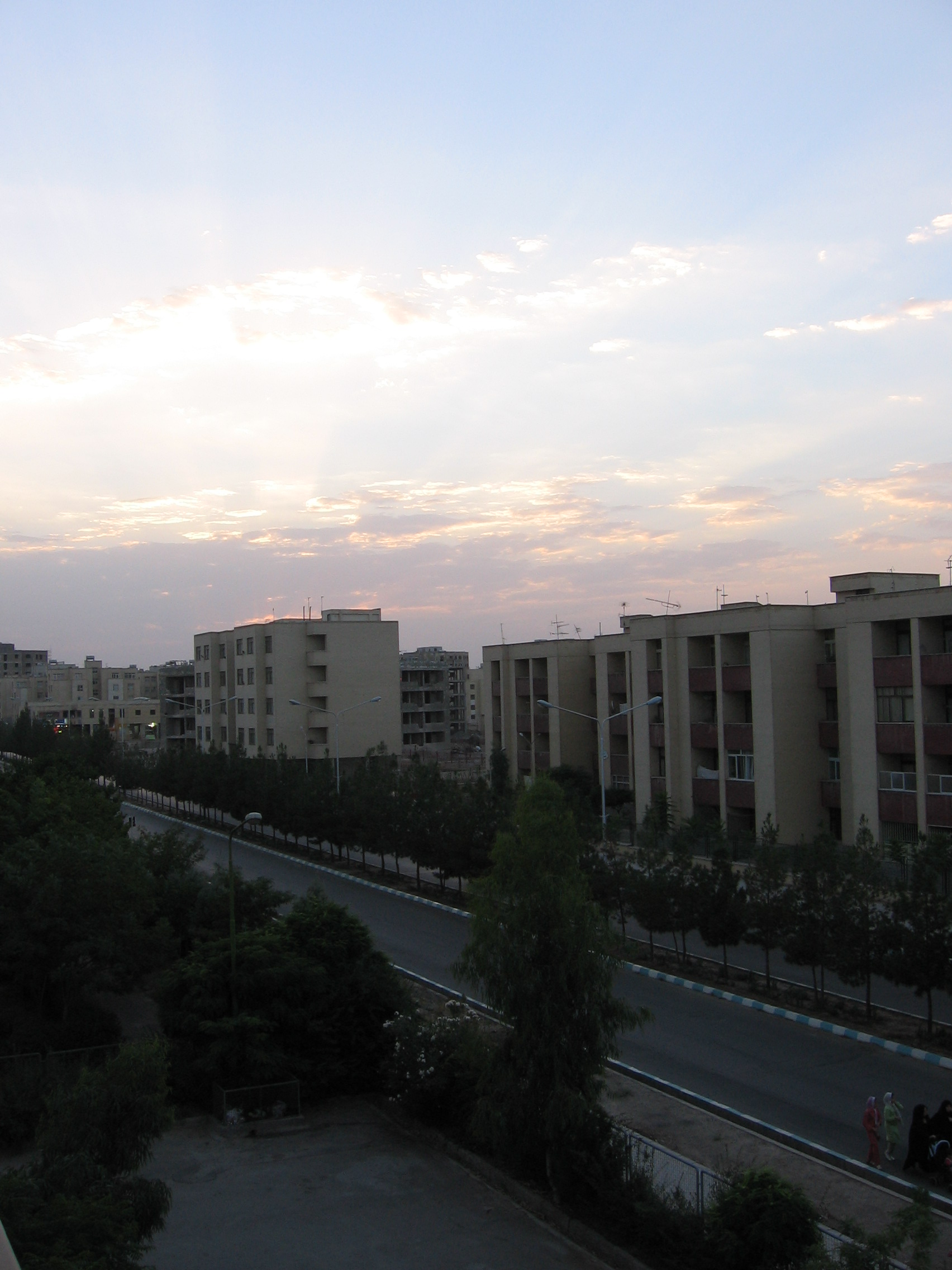 Baharestan New Town, Isfahan, Iran